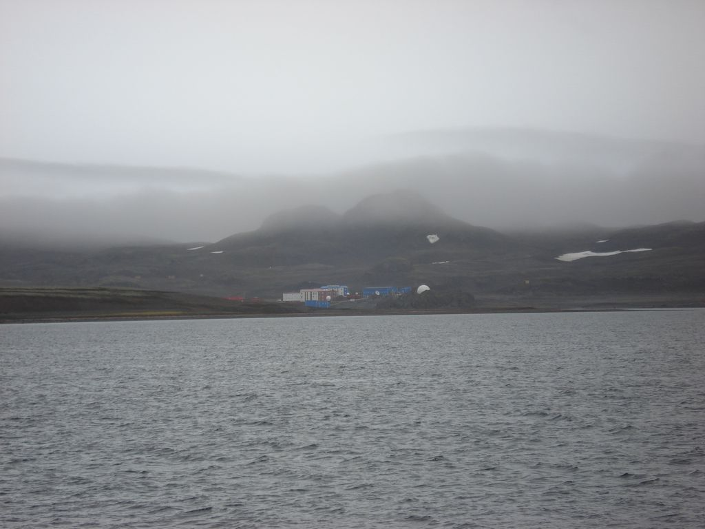 Chinese Great Wall Station in King George Island in Antarctica.